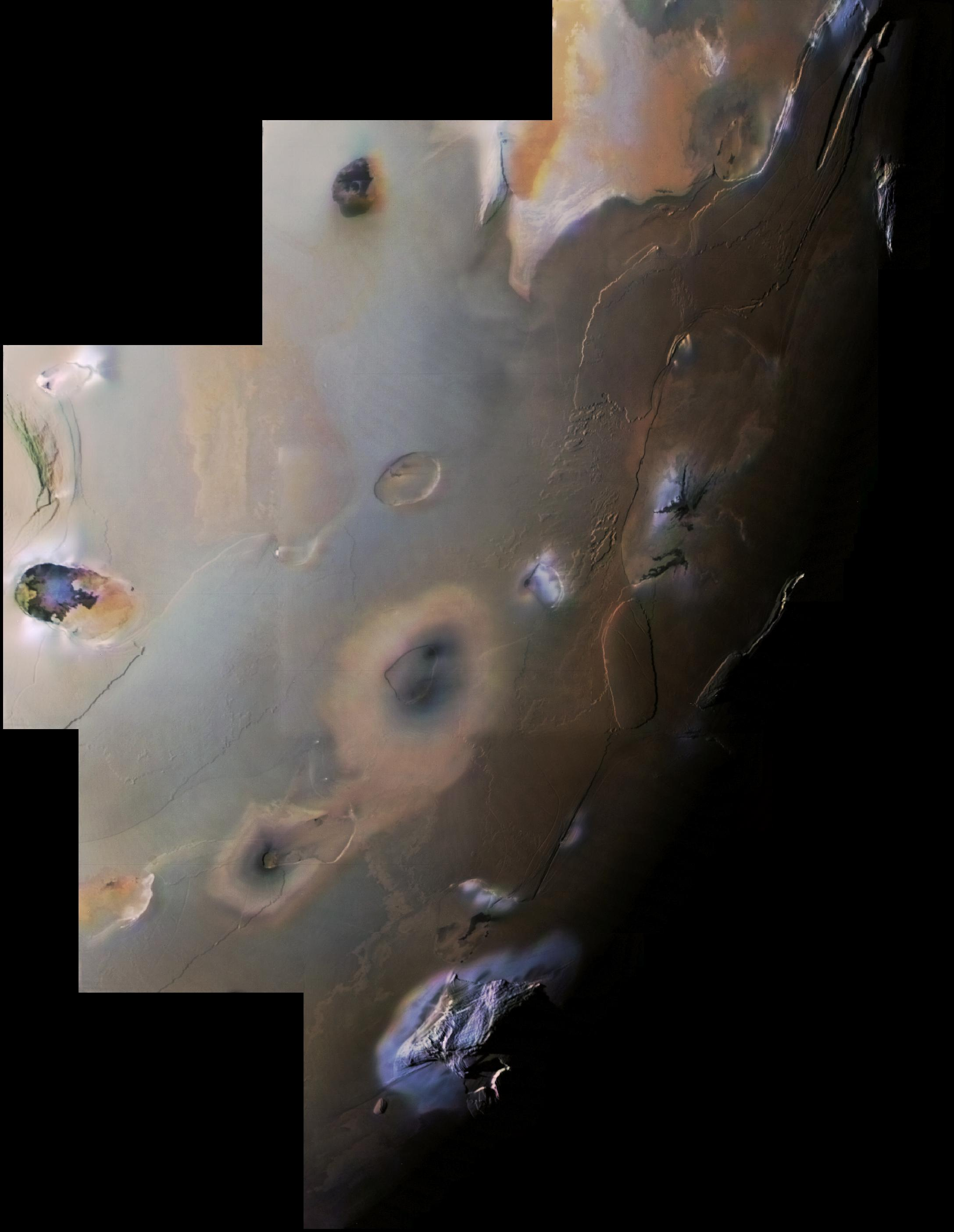 This Voyager 1 image mosaic shows Io's south polar region. The South Pole is near the terminator (line between daylight and night) at right center. Haemus Mons, a 10-km high (32,000 foot) mountain is at bottom. Elsewhere, much flatter volcanic plains, eroded volcanic plateaus, and crater-like volcanic calderas dominate the scene. The partly black-filled caldera at far left is Creidne Patera. The composition of the prevalent volcanic plains of Io could consist dominantly of sulfur with a thin discontinuous coating of sulfur dioxide frost or of silicates (such as basalt) coated with sulfurous condensates. The black material in Creidne Patera is where sulfur or silicates are probably still molten, whereas the brown material in the caldera is probably where the sulfur has solidified. Many of the features in this image are annotated in Wikimedia Commons.